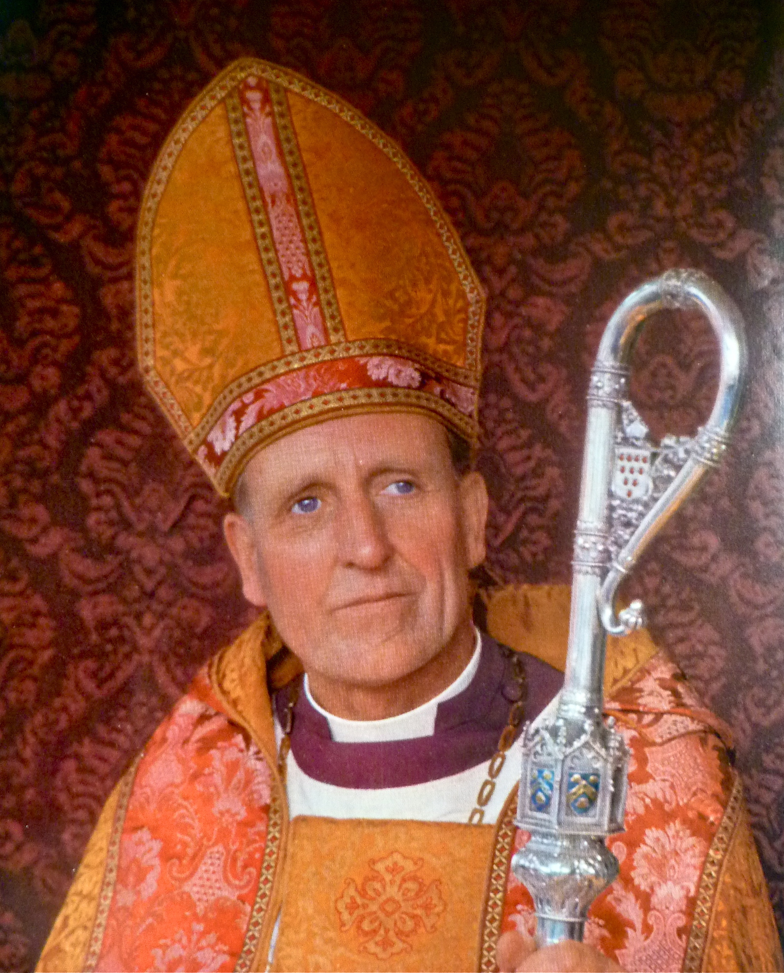 Bishop Cuthbert Bardsley (1907 - 1991), image of Bishop Cuthbert Bardsley from Warwickshire & Worcestershire Illustrated magazine June 1962 special publication to commemorate the consecration of Coventry Cathedral